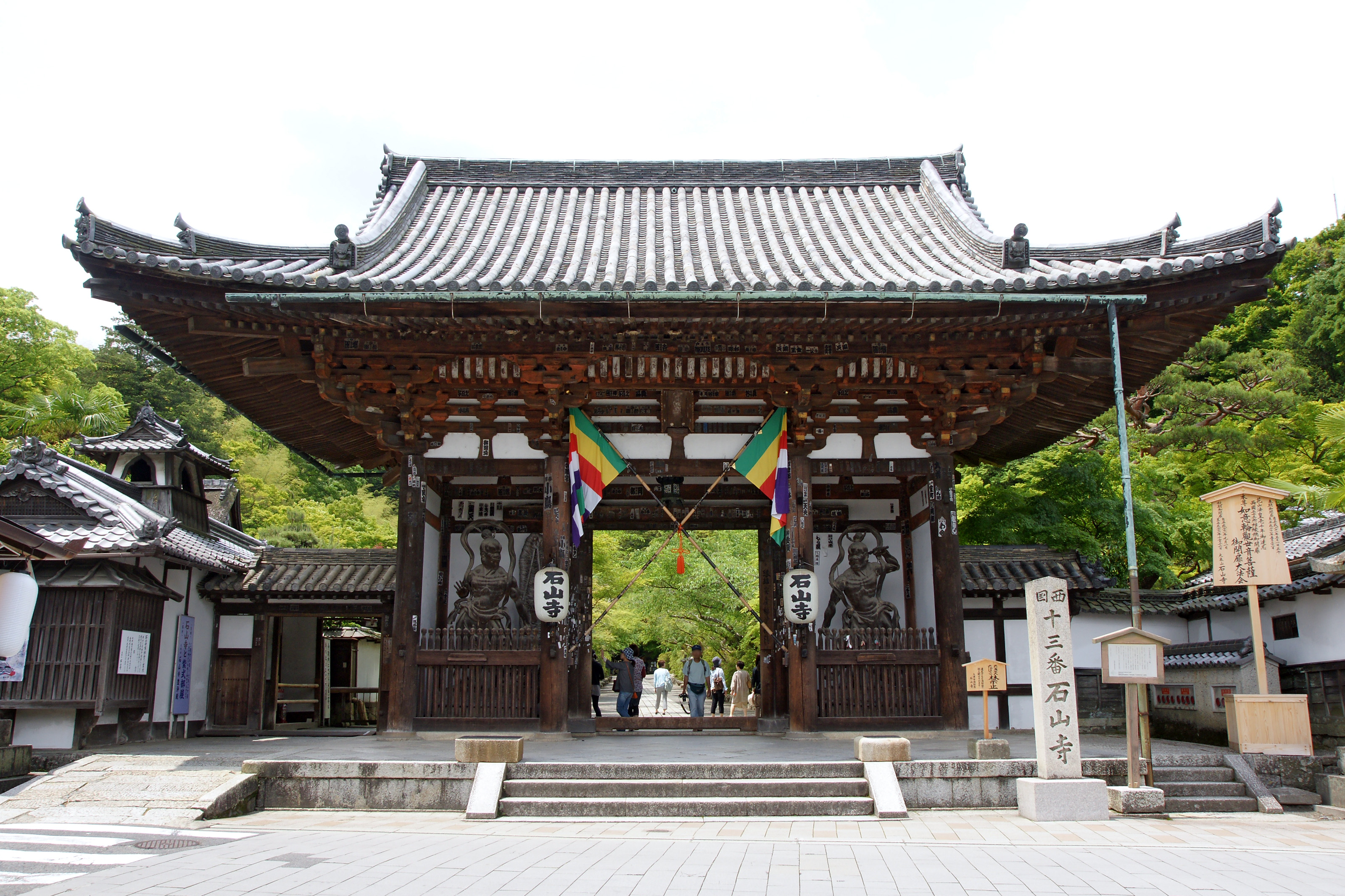 Ishiyama-dera in Otsu, Shiga prefecture, Japan